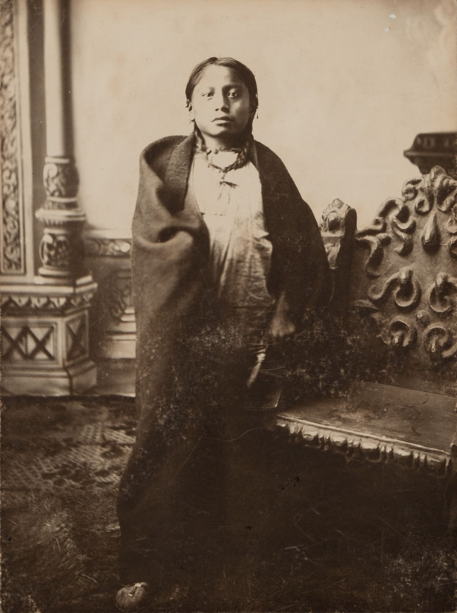 6 x 8" print of Crow Foot, Sitting Bull's son.